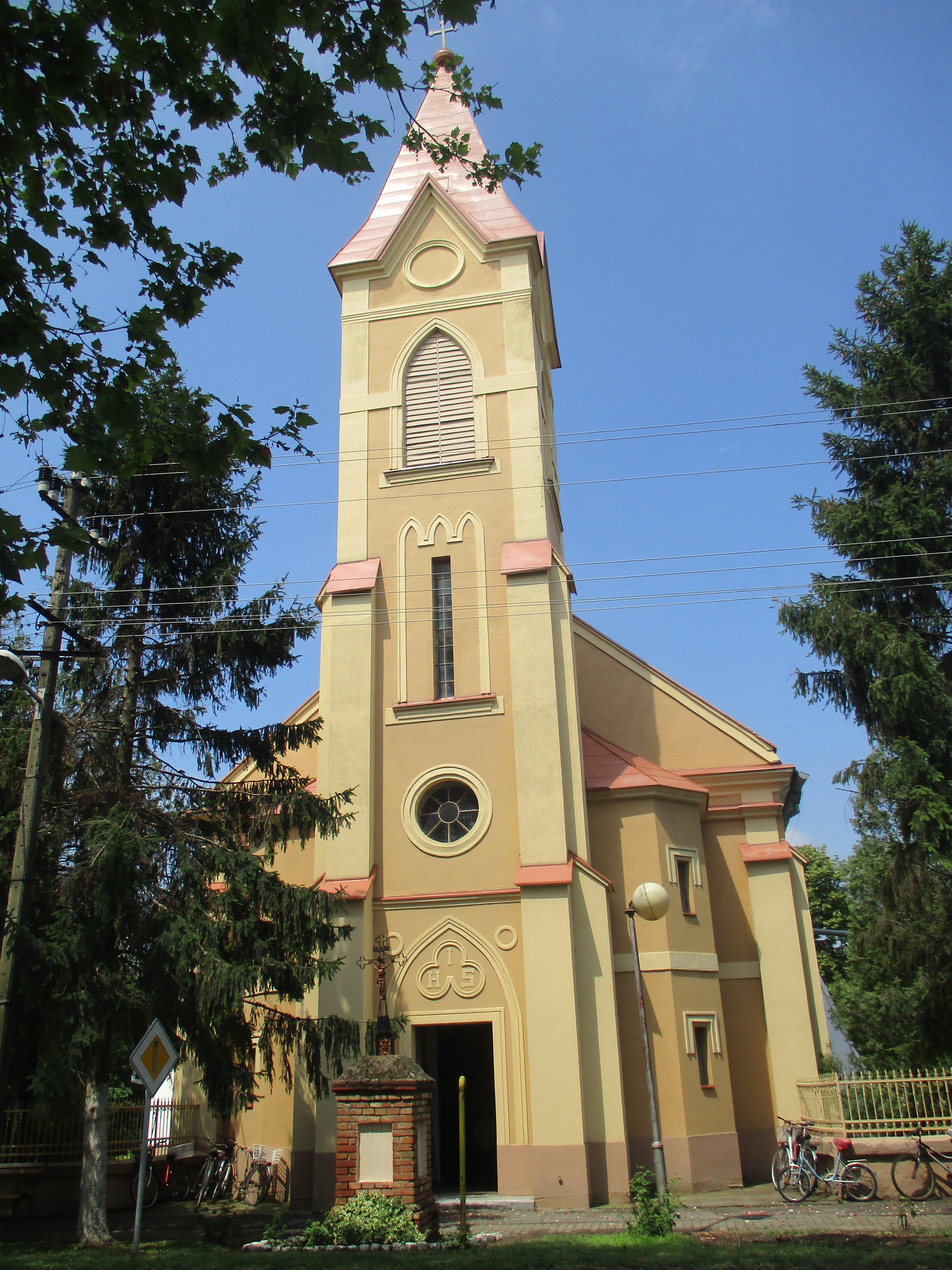 The only church in village Banatska Topola is roman catholic church The Ascension of Blessed Virgin Mary. Built in 1899, the tower is added in 1915.